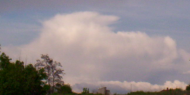 Small cumulonimbus associated to a squall line